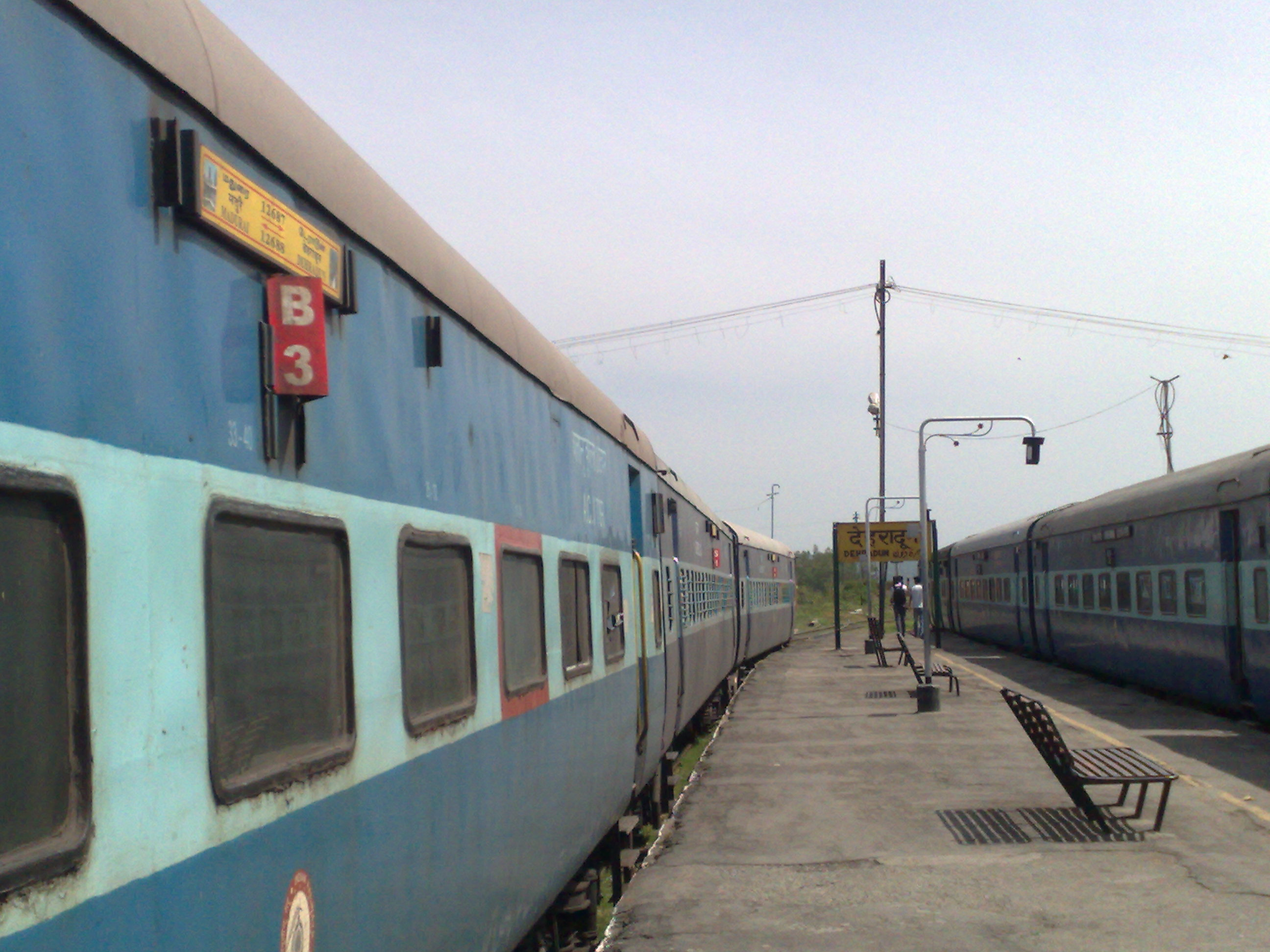 12688 Dehradun Chennai Express - AC 3 tier coach